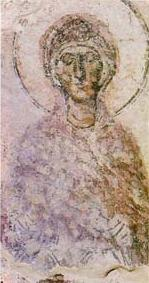 Icon of St. Anne in Veljusa Monastery, Macedonia